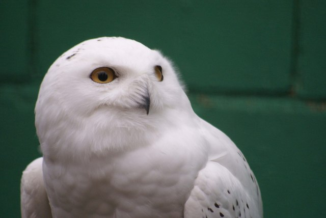 Snowy Owl At Lotherton Hall Bird Garden